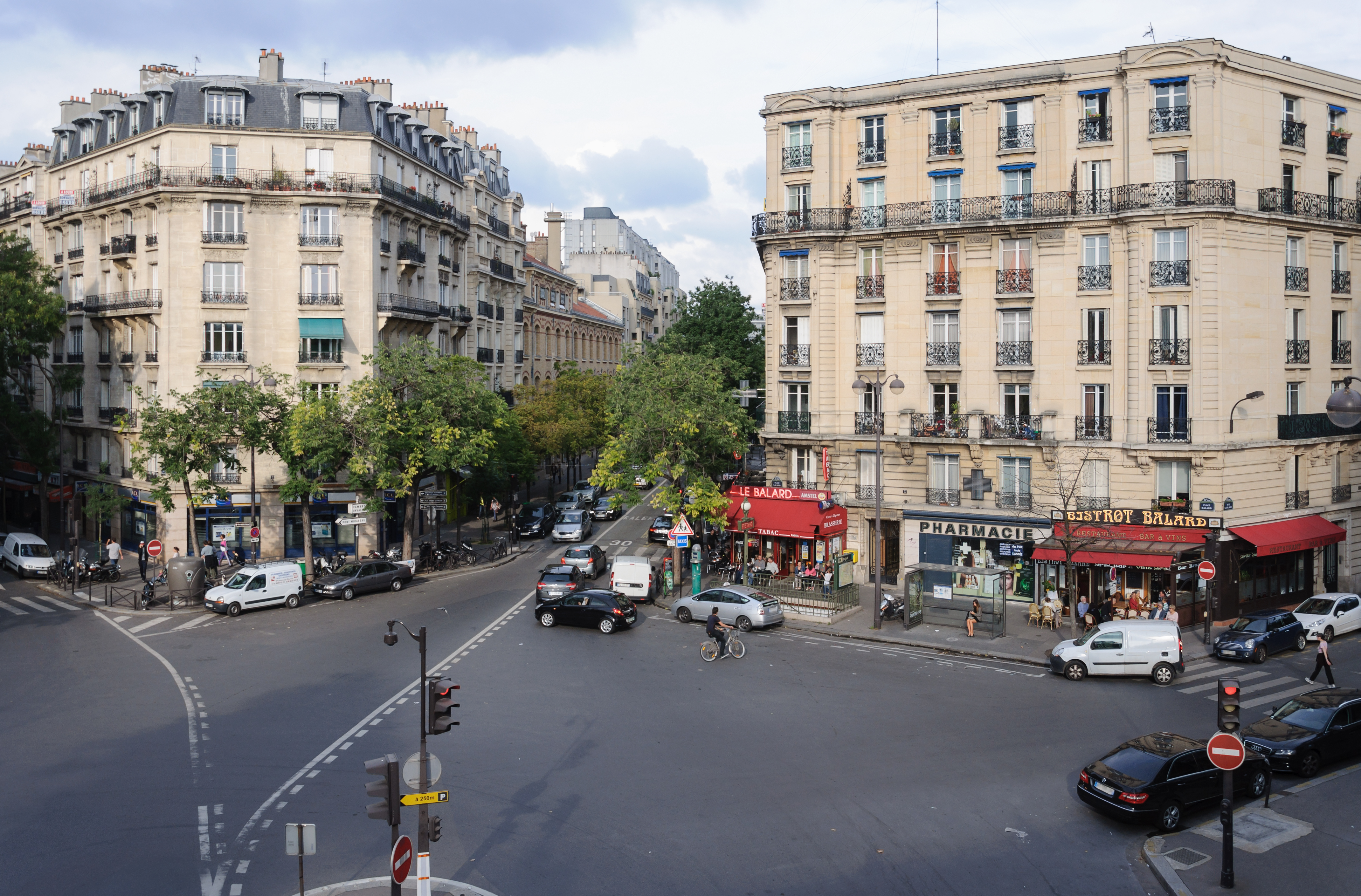 Place Balard in the 15th arrondissement of Paris, France.